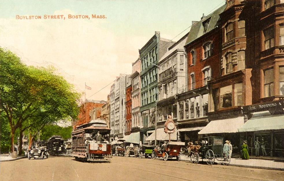 View of Boylston Street, Boston, Massachusetts on a 1911 postcard